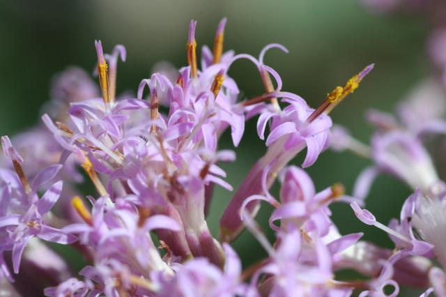 Alpine Plantain (Adenostyles alpina), a photography originating of the internet site The accord of the autor, H. Brisse, is here. Adénostyle des Alpes (Adenostyles alpina), une photographie issue du site internet L'accord de l'auteur, H. Brisse, se situe ici.